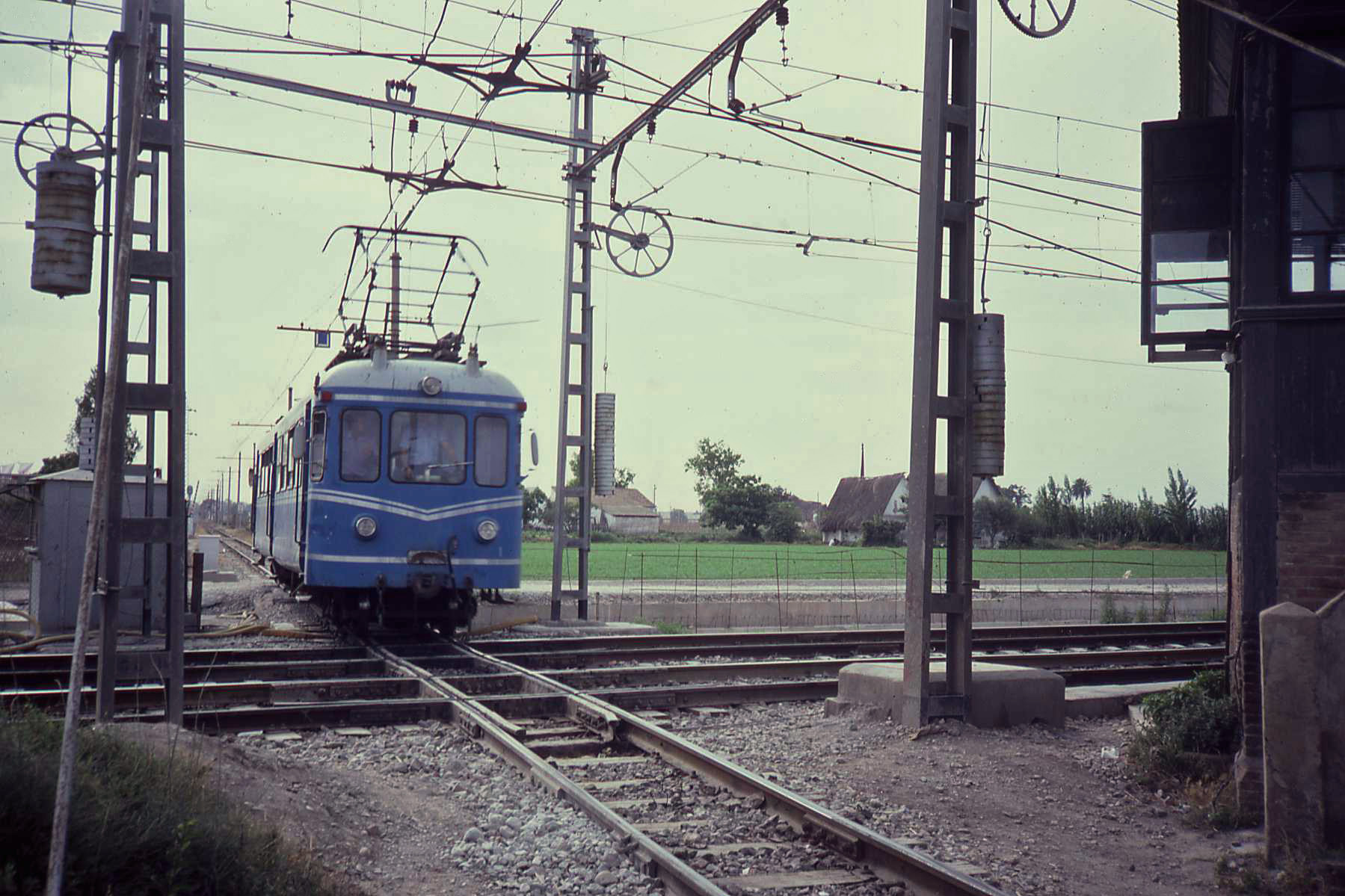 Level crossing of a metergauge regional railway with Spanisch gauge railway in the North of Valencia on the line to "El Grau".